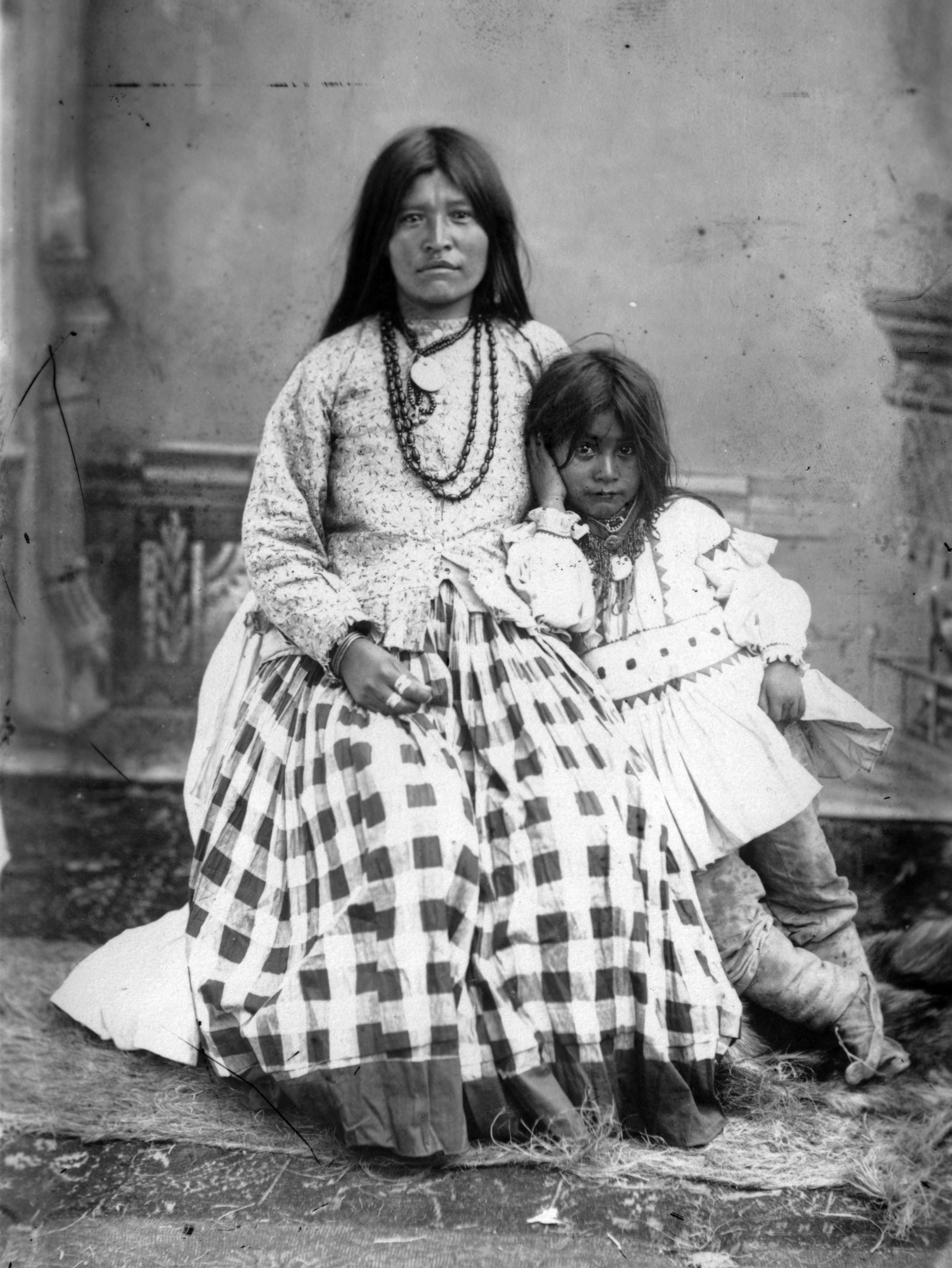 Studio portrait (sitting and standing) of Ta-ayz-slath (Early Morning), Geronimo's wife, and his son, Native American (Chiricahua Apache) woman and boy. She wears beaded necklaces.